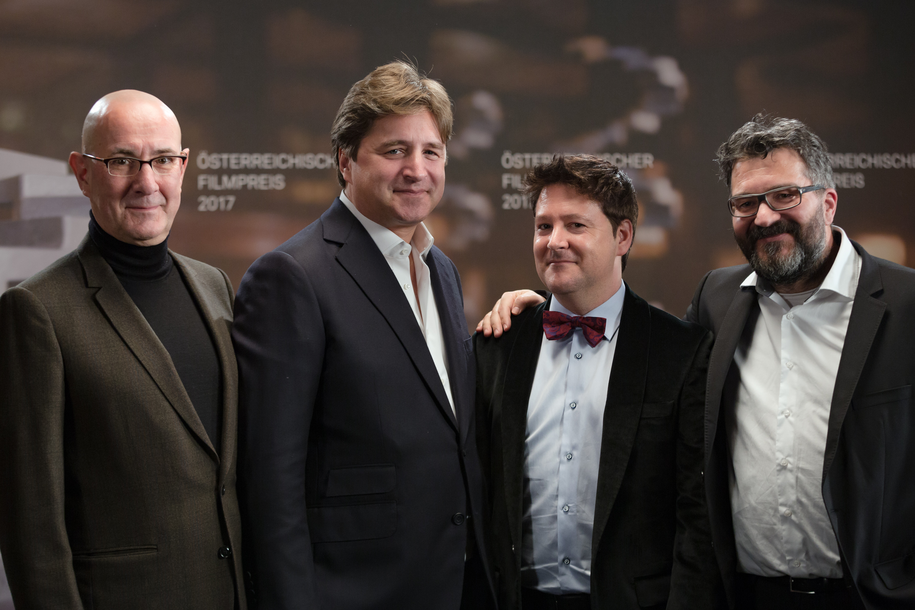 Producer Michael Seeber with Guy Farley and Christopher Slaski, the composers of the film score, and Friedrich Moser, author, director, cinematographer, editor and producer of A Good American at the Austrian Film Awards 2017 (Rathaus, Vienna,Austria).